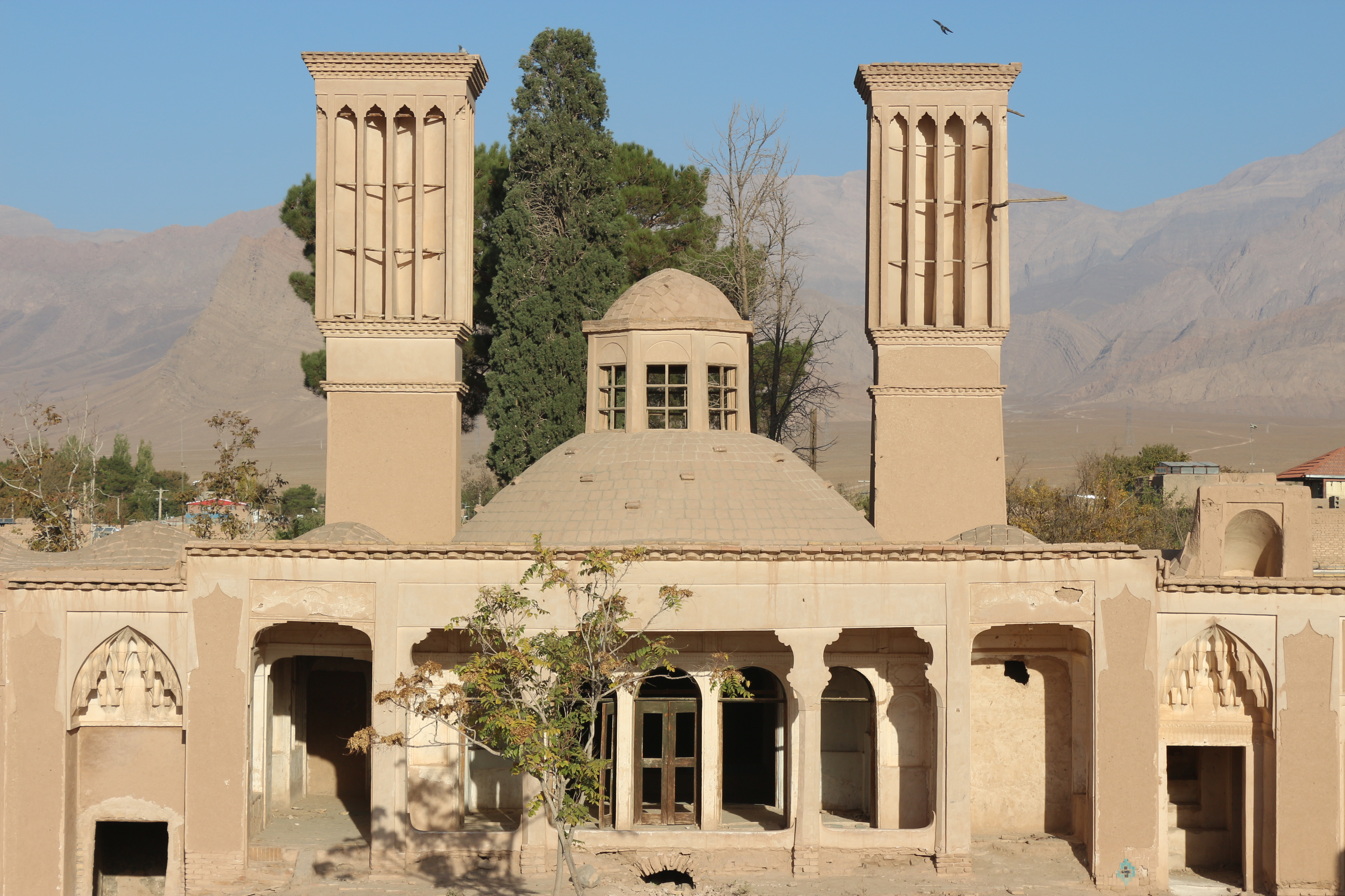 Camel ... house, building in Iran